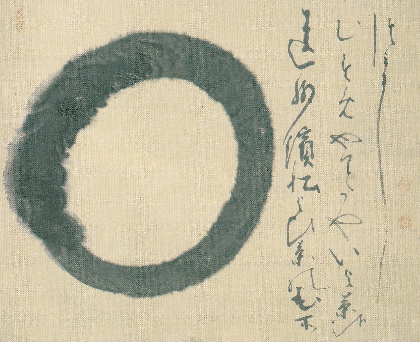 "Circle" by Hakuin Ekaku (1686-1769)